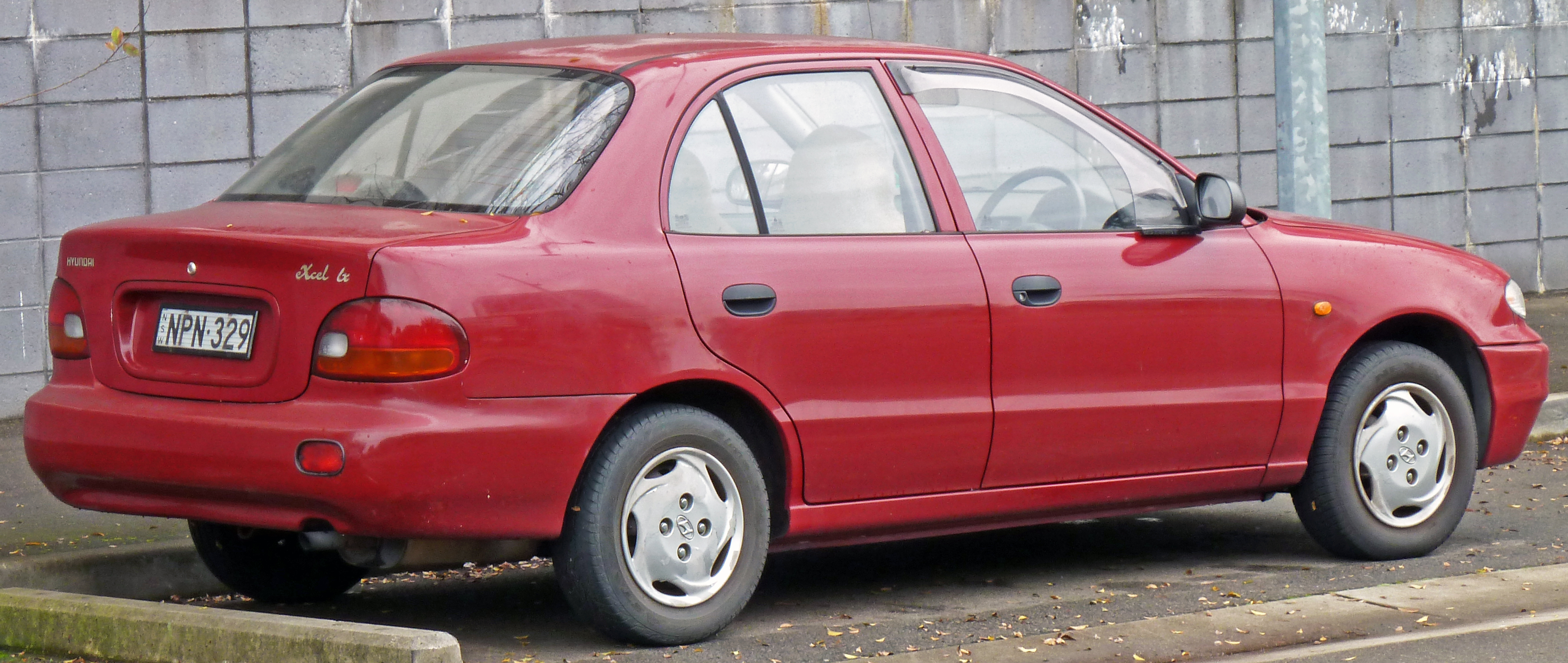 1994–1997 Hyundai Excel (X3) LX sedan. Photographed in Zetland, New South Wales, Australia.